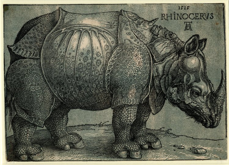 Colour woodcut of a rhinoceros